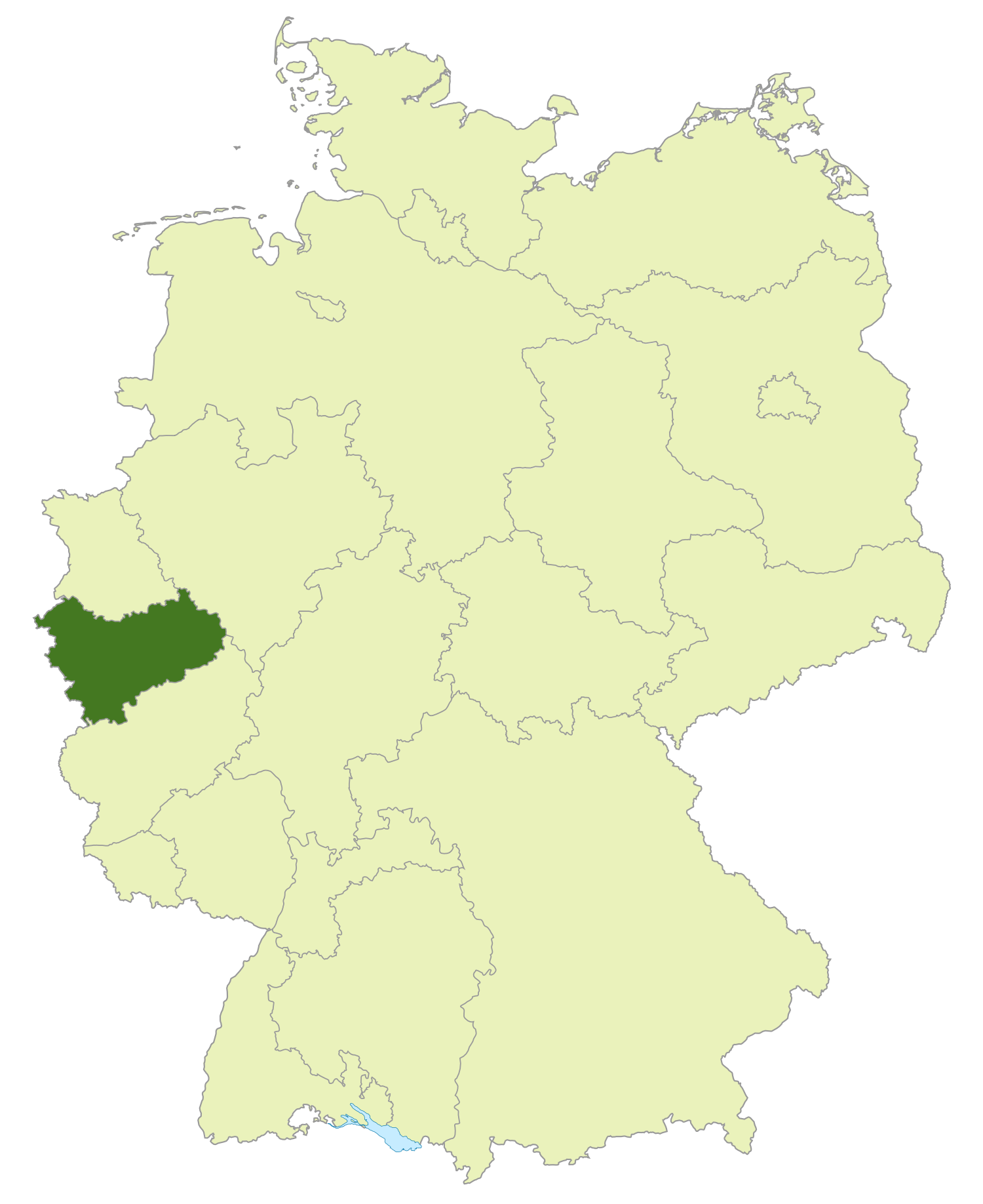 Map of regional soccer association Mittelrhein, Germany